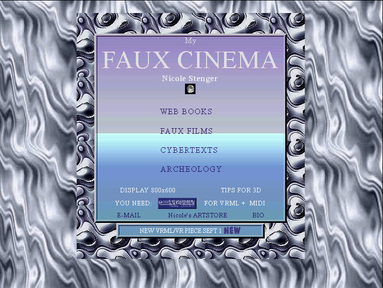 This picture is a screenshot from Fauxcinema by Nicole Stenger.